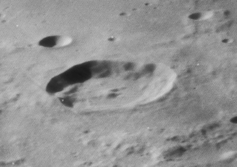 Oblique view of Democritus, facing west, on the moon.